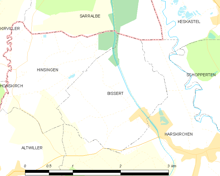 Map of French municipality